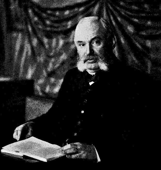 Robert Dickson (1843-1924), Swedish politician and county governor.